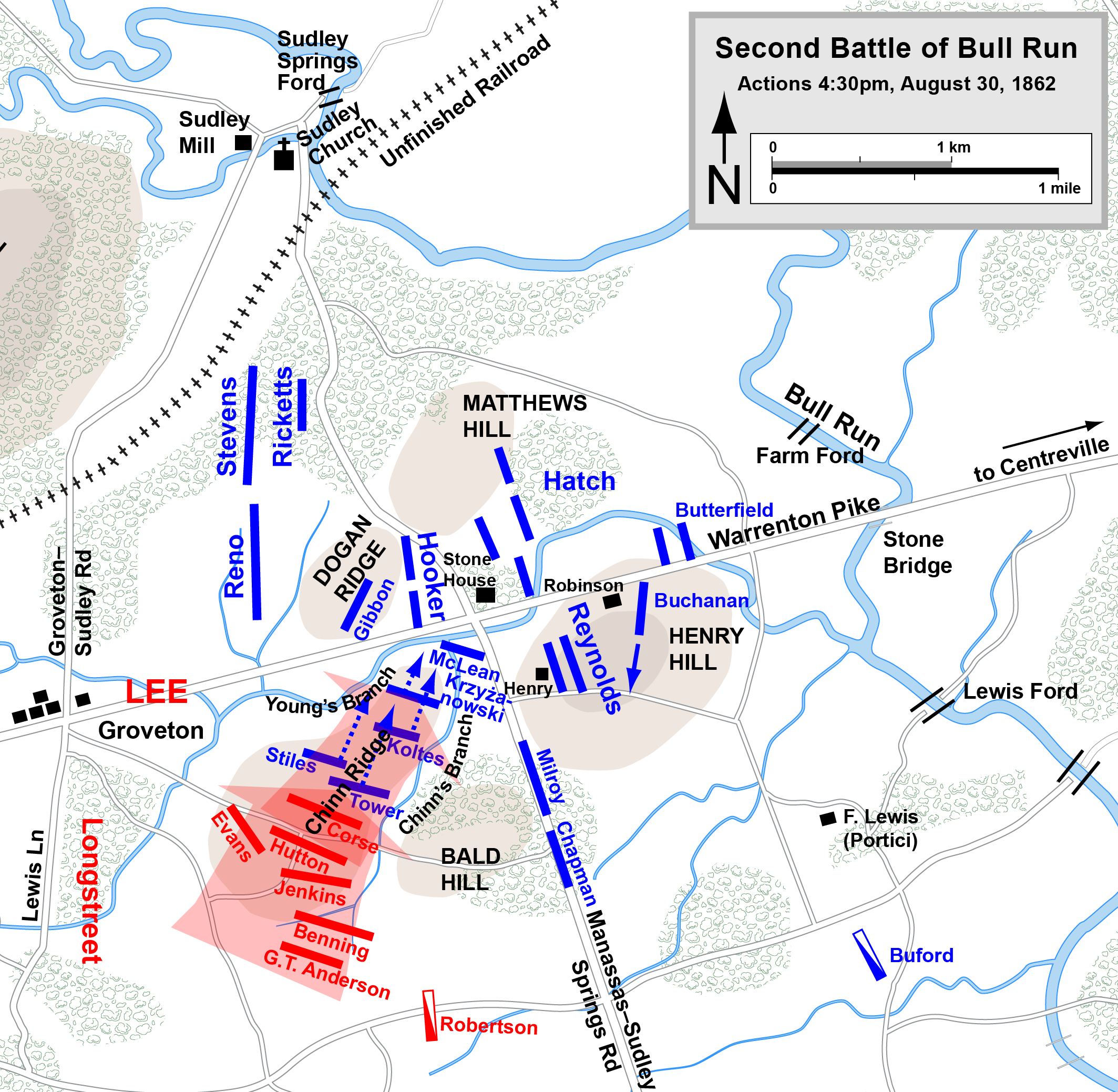 Map of the Second Battle of Bull Run of the American Civil War.